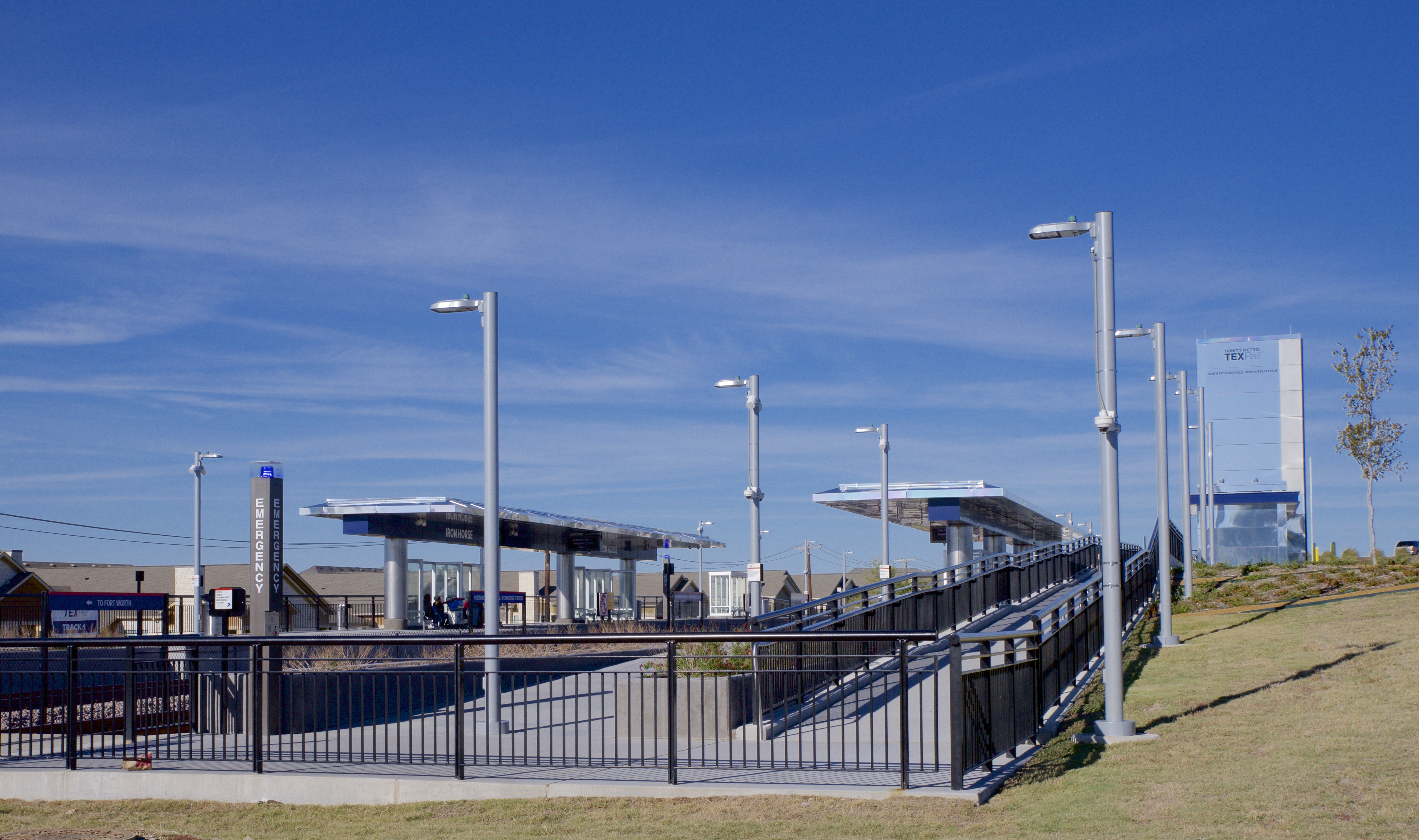 TEXRail North Richland Hills/Iron Horse Station as seen from the southwest, November 2019.